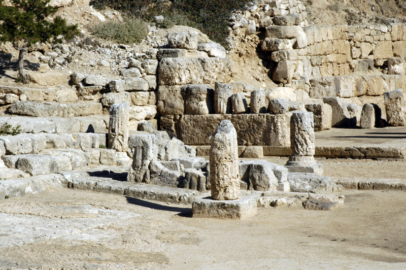 J. Matthew Harrington, personal digital image, November 16, 2006